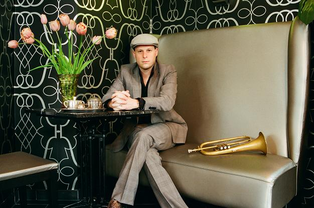 Thomas Siffling 2010